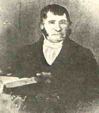 A portrait of Sarel Cilliers